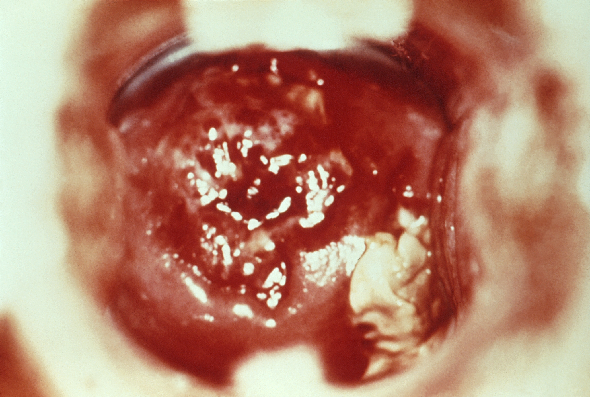 This patient presented with a case of cervicitis due to what was differentially diagnosed as herpes simplex virus. Initially, this patient was believed to be suffering from a case of cervicitis due to Neisseria gonorrhoeae, which like herpes is a sexually transmitted disease. Note the erosive inflammation with accompanying paracervical purulency.